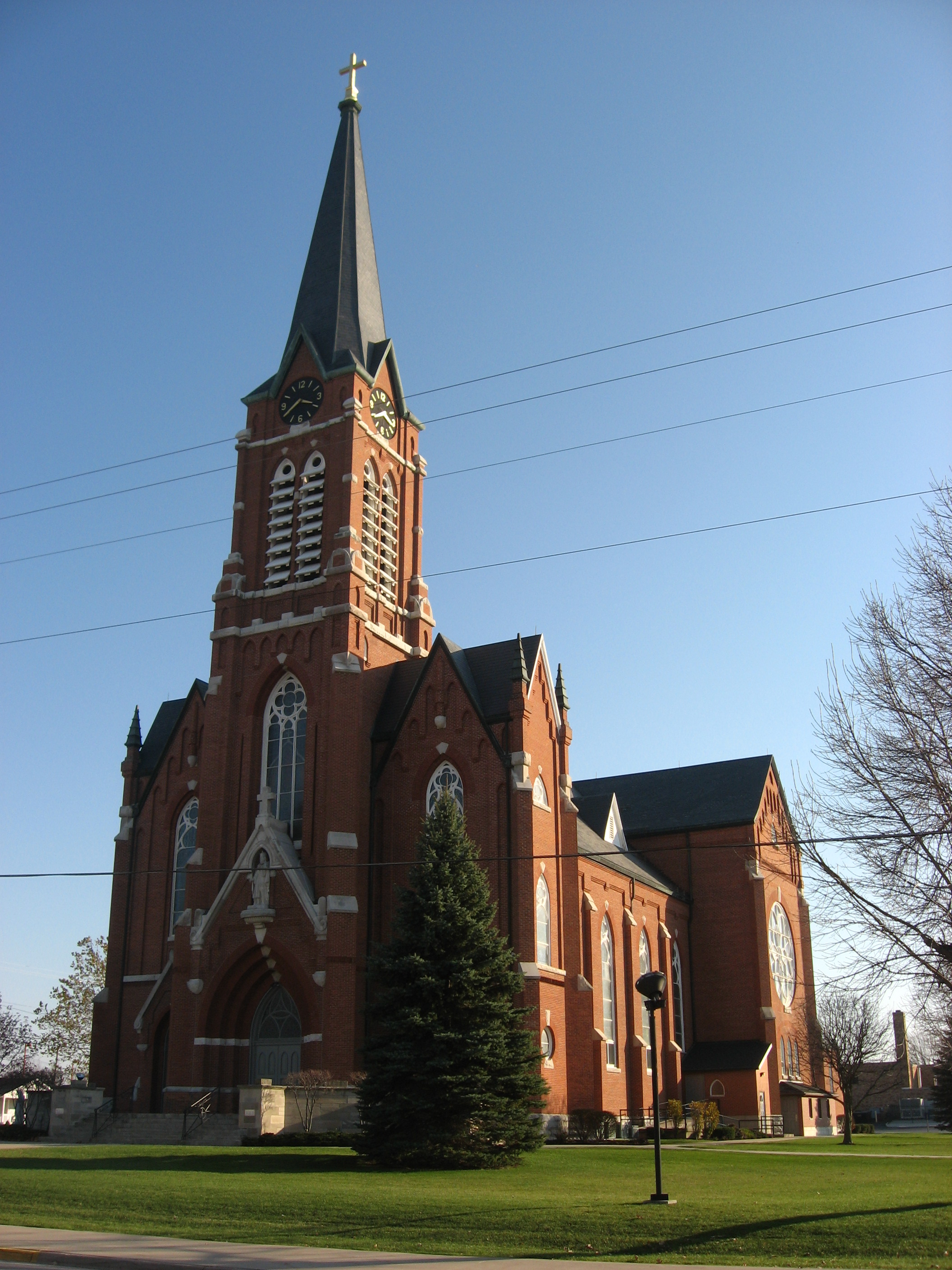 Front of St. Henry Catholic Church, located along State Route 119 in St. Henry, Ohio, United States. Built in 1892, the church was listed on the National Register of Historic Places as a part of the Cross-Tipped Churches of Ohio Thematic Resources.